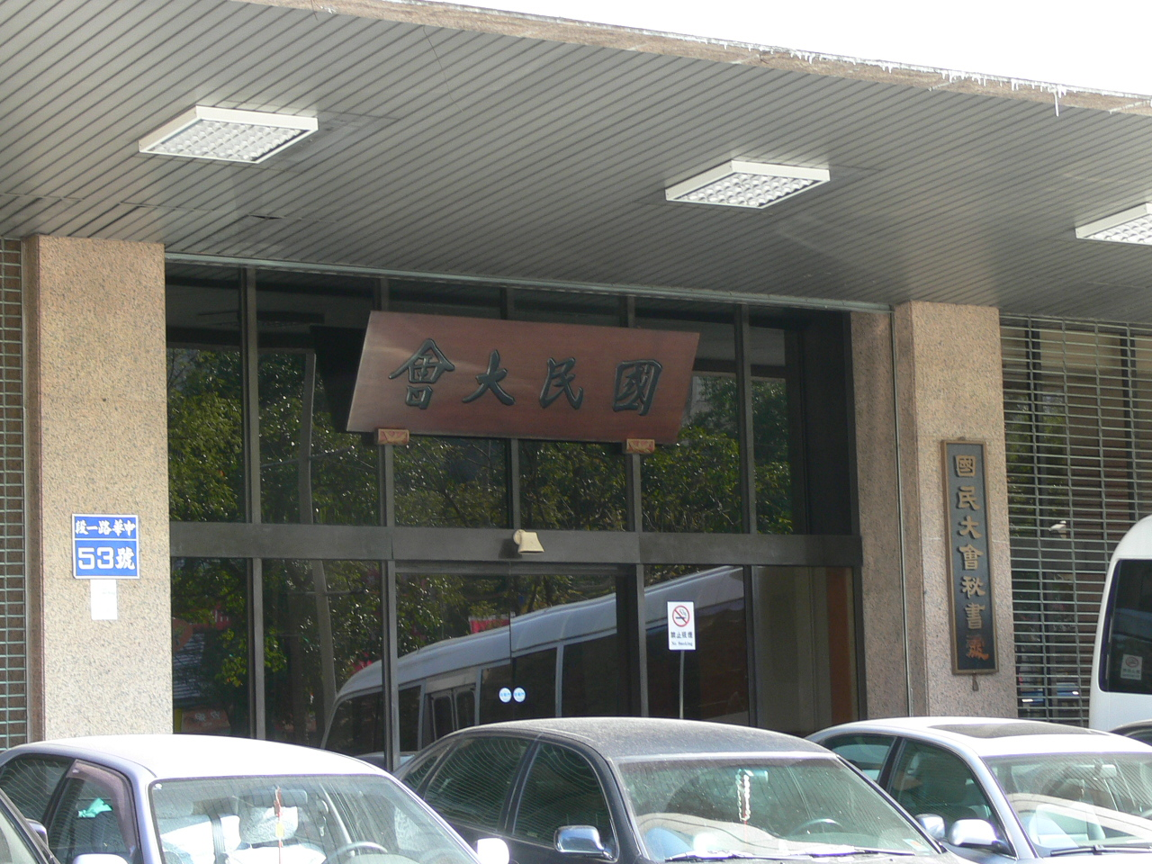 National Assembly Secretariat, Republic of China. Address: No.53, Zhonghua Road Section 1, Zhongzheng District, Taipei City.